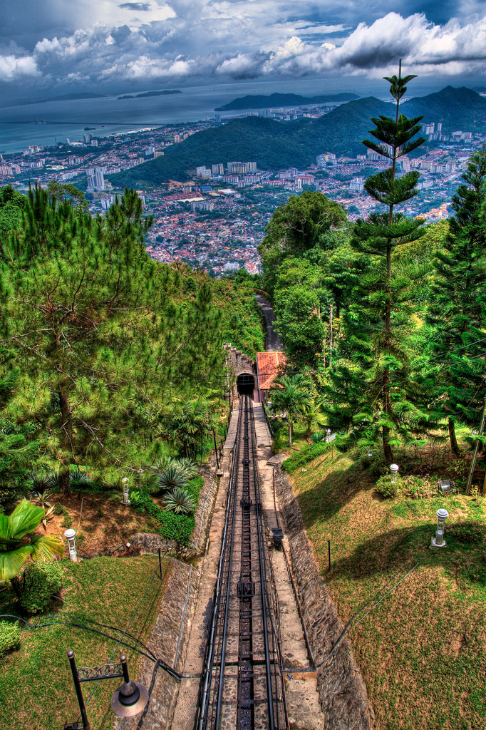 Another HDR. This photo was taken at the top cable car station at Bukit Bendera. 3 exp HDR combined in Photomatix Pro, tweaked using Lightroom 2.